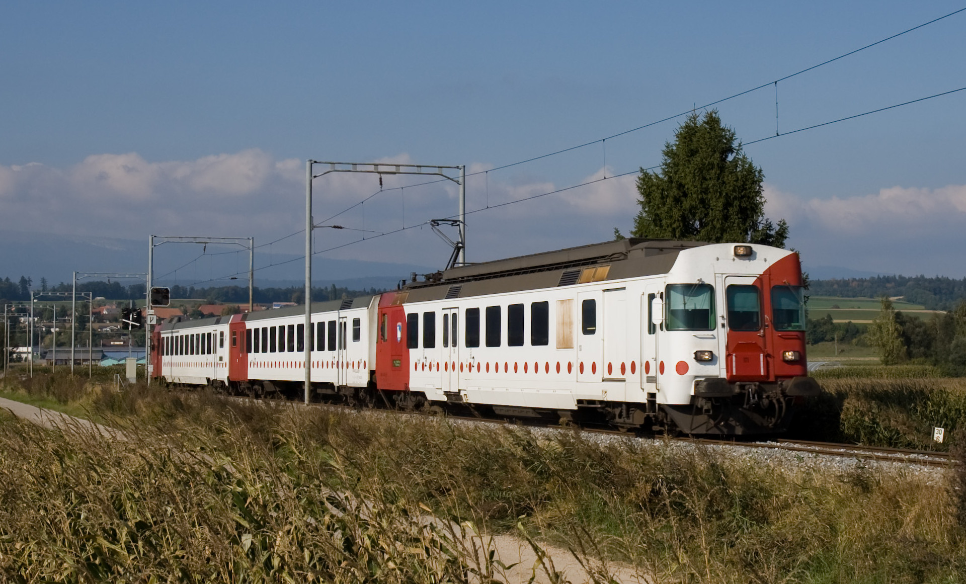 TPF commuter train with multiple unit RBDe 567, part of the "NPZ" (Neuer PendelZug) family.